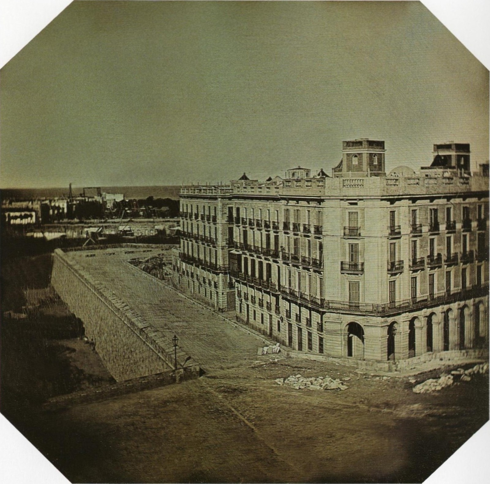 Daguerreotype view of Barcelona in 1848. One of the first daguerreotypes preserved in Spain. "The view is a specular symetry of the actual view, fact that happened in the original daguerreotypes". It has appeared in three enciclopedic books of photography as "View of the house Xifré" (sic), but actually it's the neighboring "Casa Vidal Quadras", Barcelona. The image is reversed laterally (essential point to realize that it is not the Xifré House at all). Furthermore, Casa Xifré has a completely rectangular plant, with squared corners without chanfrain, and between the arches it's richly decorated with medallions and other decorative motifs. Therefore this one it is not the "Casa Xifré". Without doubt, it`s the House Vidal Quadras, also built by an "Indiano" (former migrant enriched in America). It can be verified pretty well by "surfing" on Google maps, in Barcelona, ​​Passeig d'Isabel II, covering all porches and arches at street level, and from the top. (from Museo de Arte Moderno de Tarragona) P.S. Three buildings at P. Elizabeth II, 2-6 (Barcelona). There are by no means "Casa Xifré" as baptised in a previous uploaded file